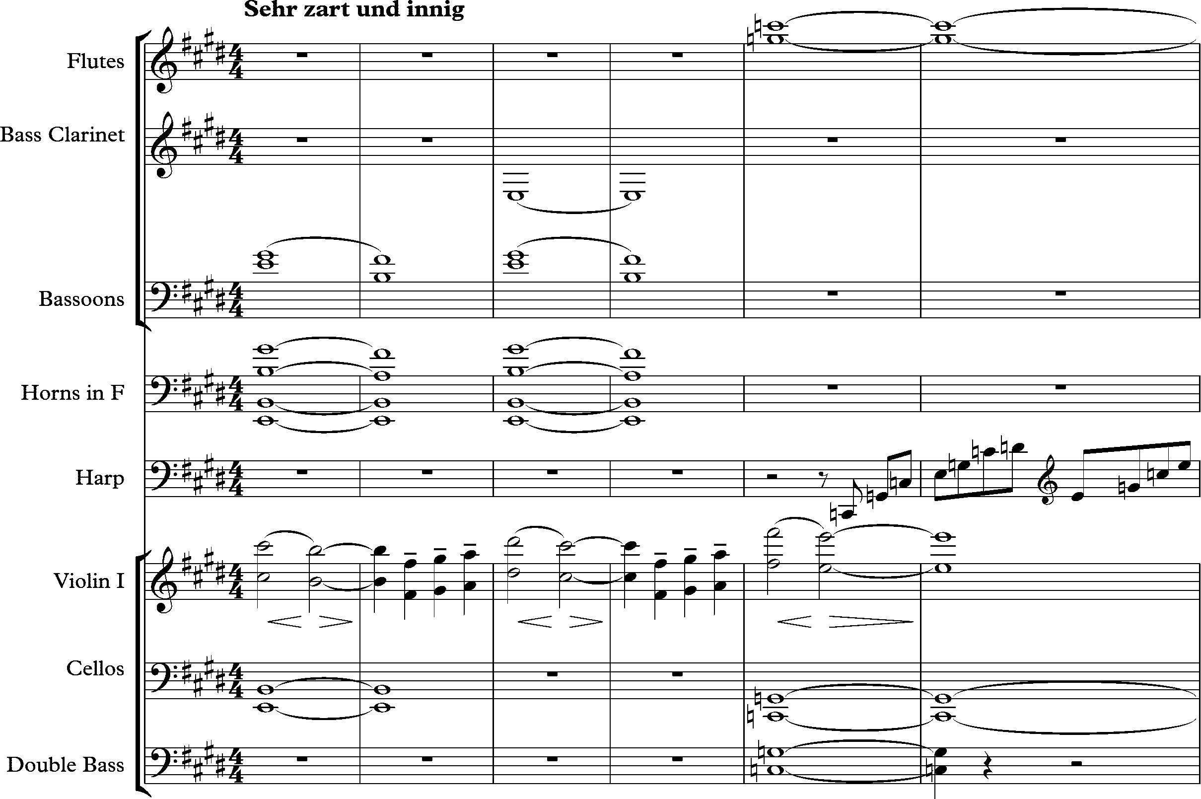 Mahler Symphony No 4, third movement, Figure 13